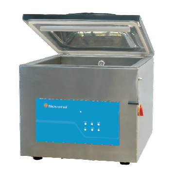 Tabletop Vacuum Packaging Machine